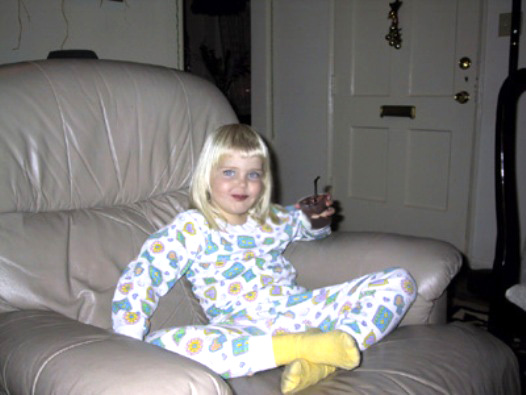 Girl from Coronel Suárez, Argentina drinking mate (Volga German colony)